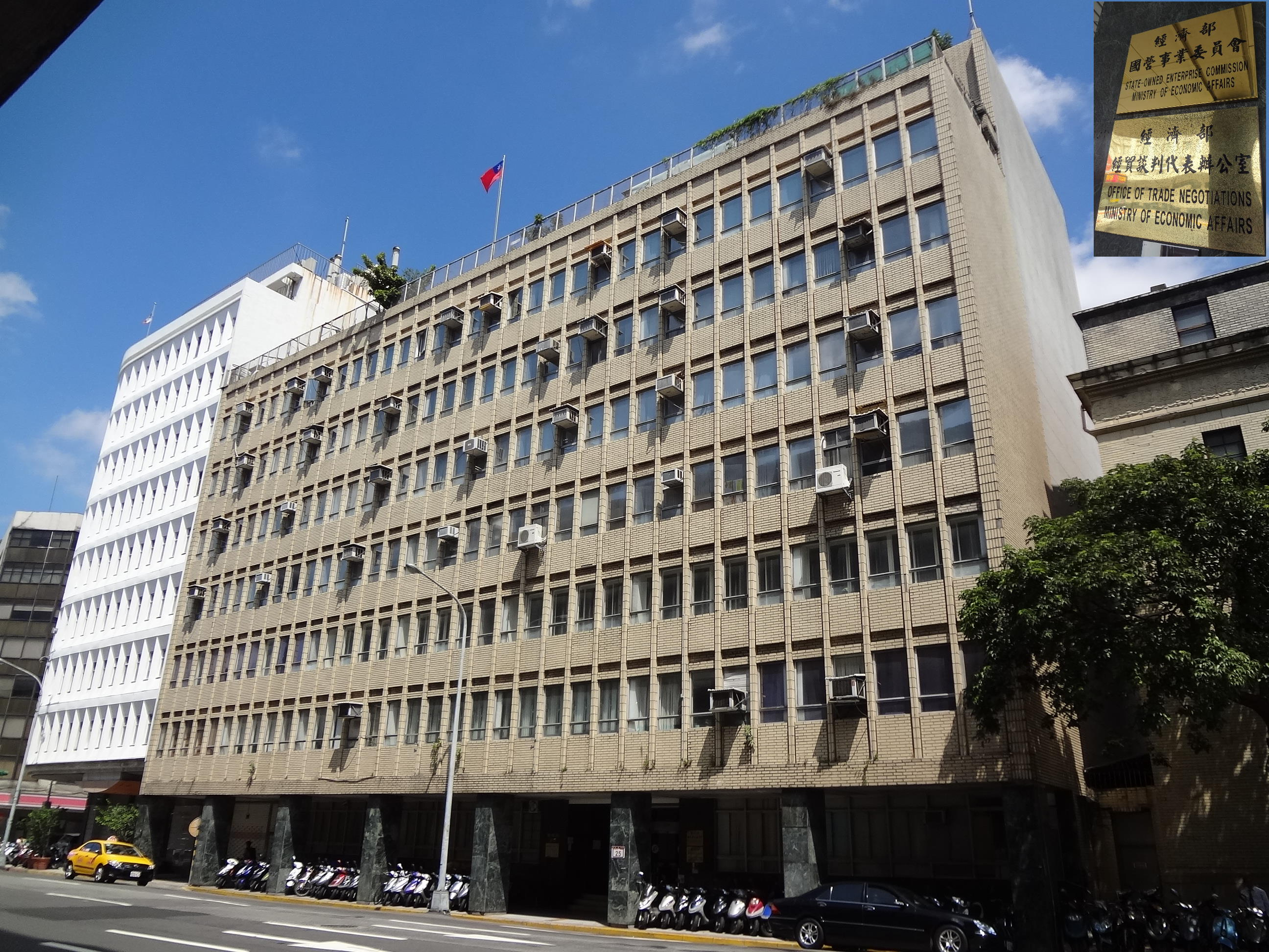 State-owned Enterprises Commission, Ministry of Economic Affairs, Republic of China.